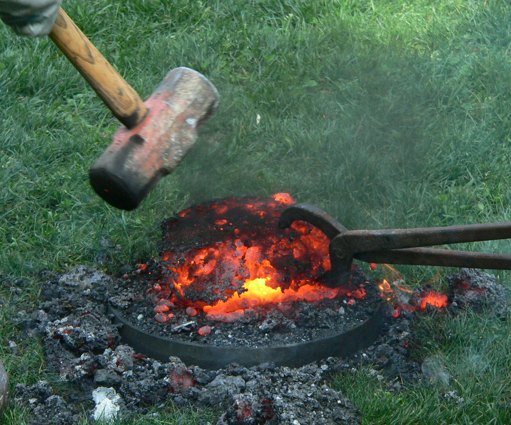 A bloom of sponge iron just taken from a bloomery, about to be shingled. Part of an experimental archaeology project undertaken by the Historic Preservation Department at the University of Mary Washington, Fredericksburg, Virginia, in 2006.